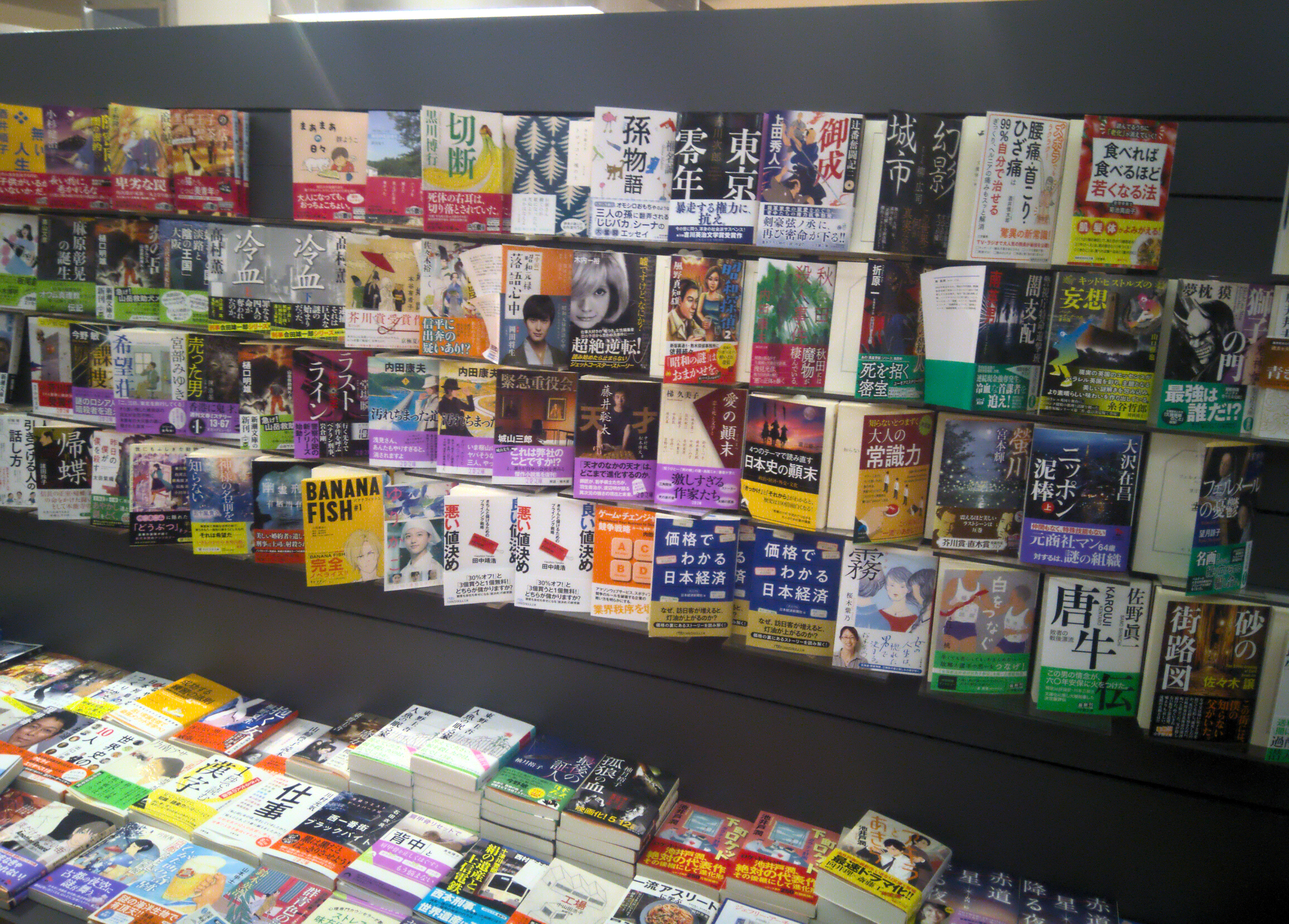 A rack showing light novels in a Books Kinokuniya bookshop in Jakarta